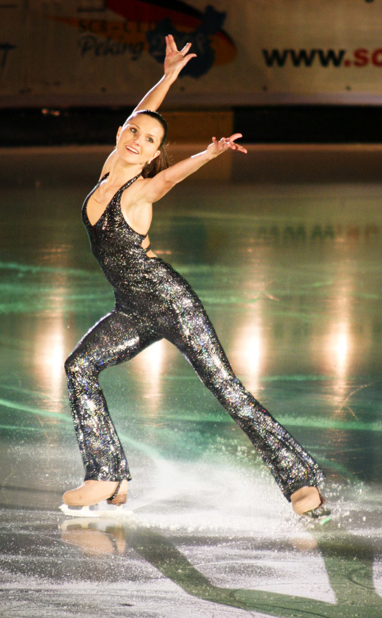 Caroline Gülke (GER) at the show "Stars und Sternchen" on 18th of December 2007